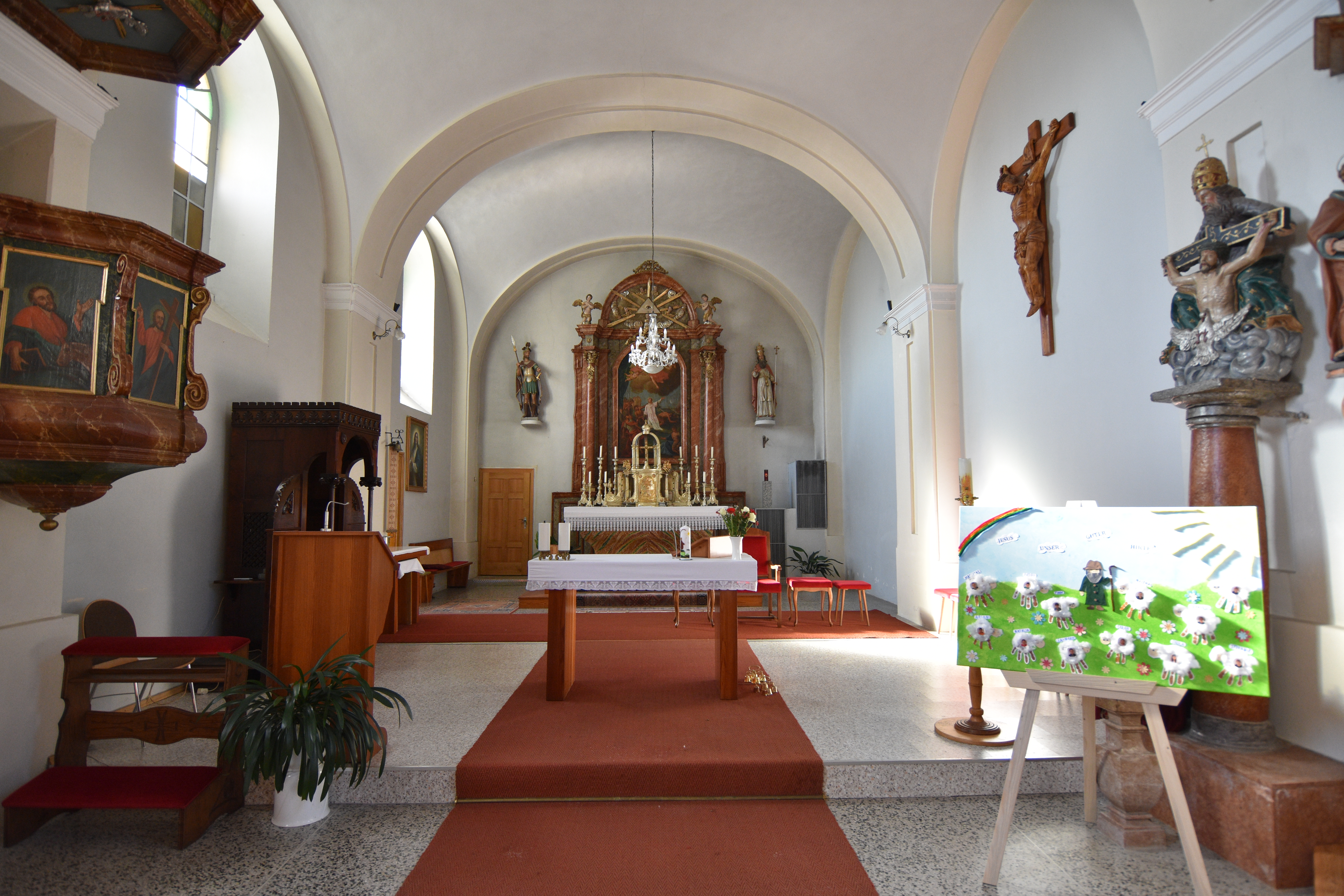 Church Olbendorf - Interior